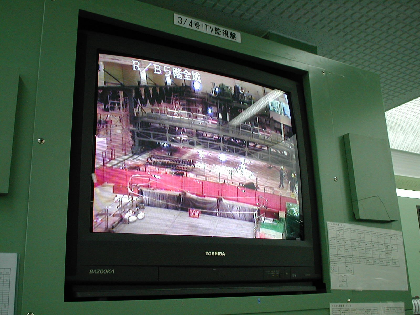 Phot taken in one of the reactor control rooms at the Fulushima 1 nuclear power plant in Japan. Image shows a monitor with remote cameras viewing the top floor of the reactor building which is where it is accessed for fuelling. This photo was taken on June 23, 1999 during a plant tour.